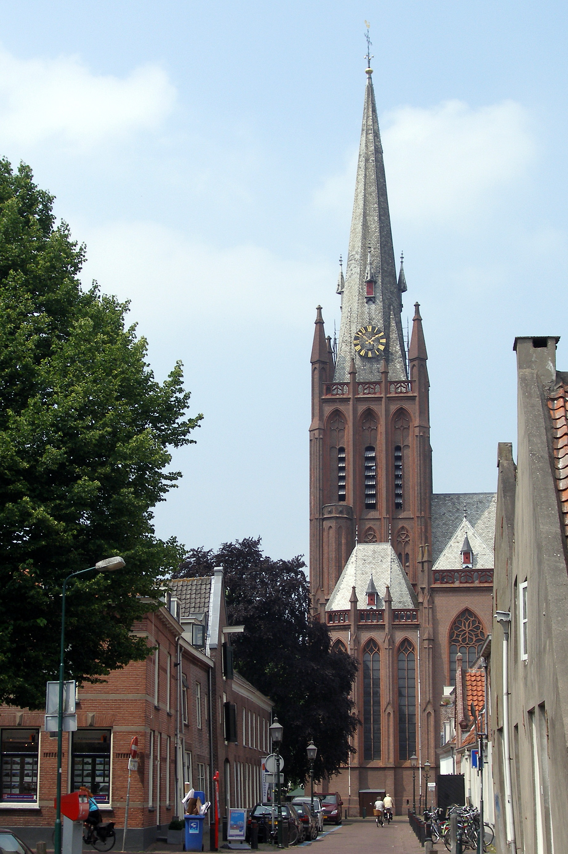 Sint-Nicolaas basilica (1885-1887) in IJsselstein, the Netherlands.